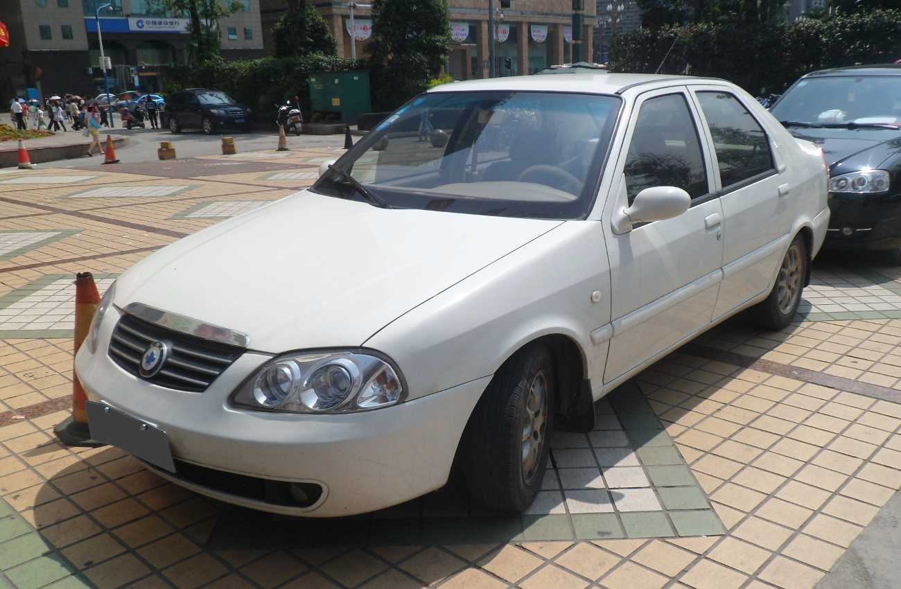 Shanghai Maple Haiyu sedan photographed in Chengdu, Sichuan province, China.